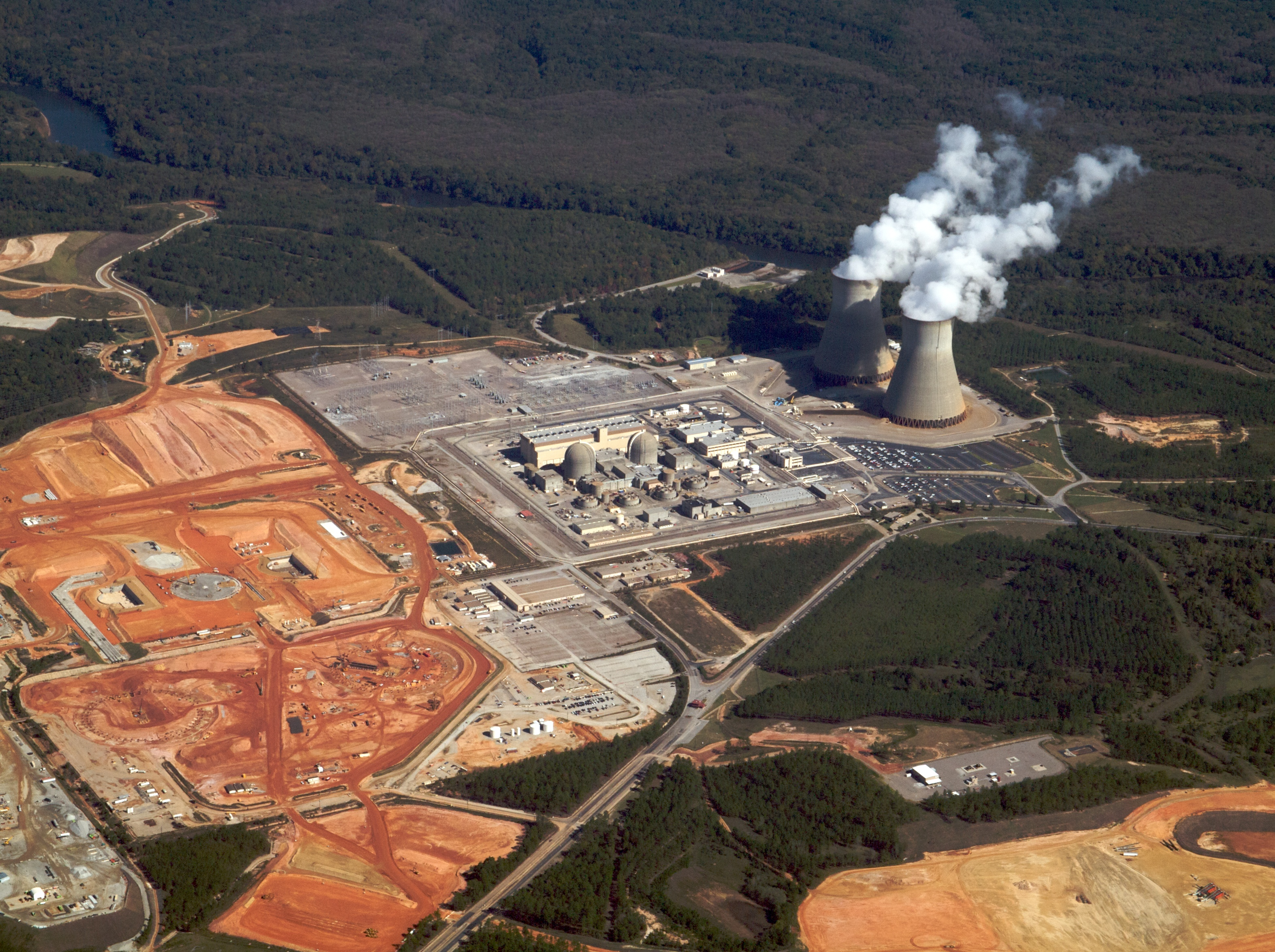 Aerial view of the Vogtle Nuclear Power Plant. Existing reactors (#1 and #2, domed structures in center) and cooling towers (on the right). The construction site for reactors #3 and #4 is on the left.